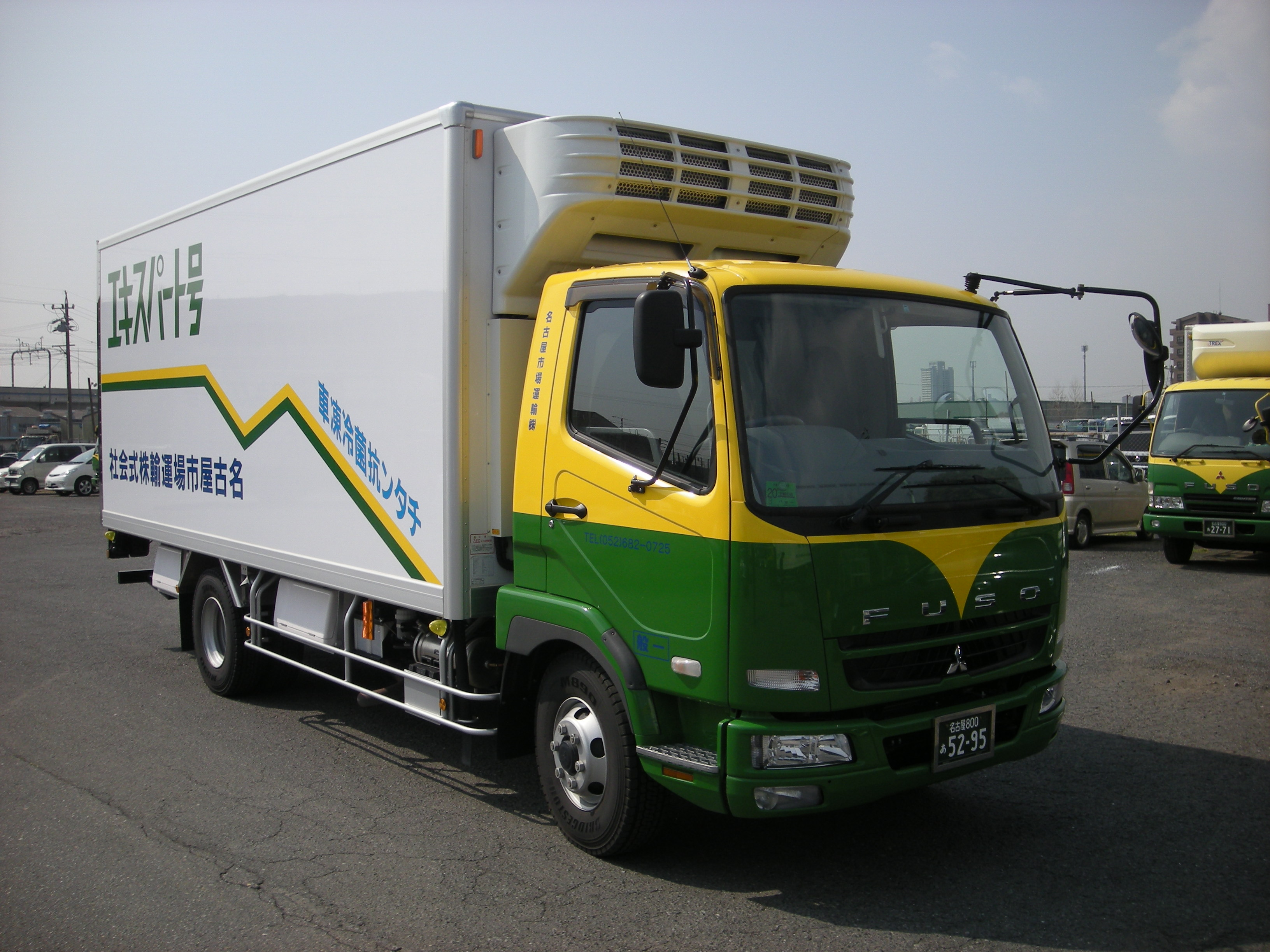 Mitsubishi-fuso Fighter